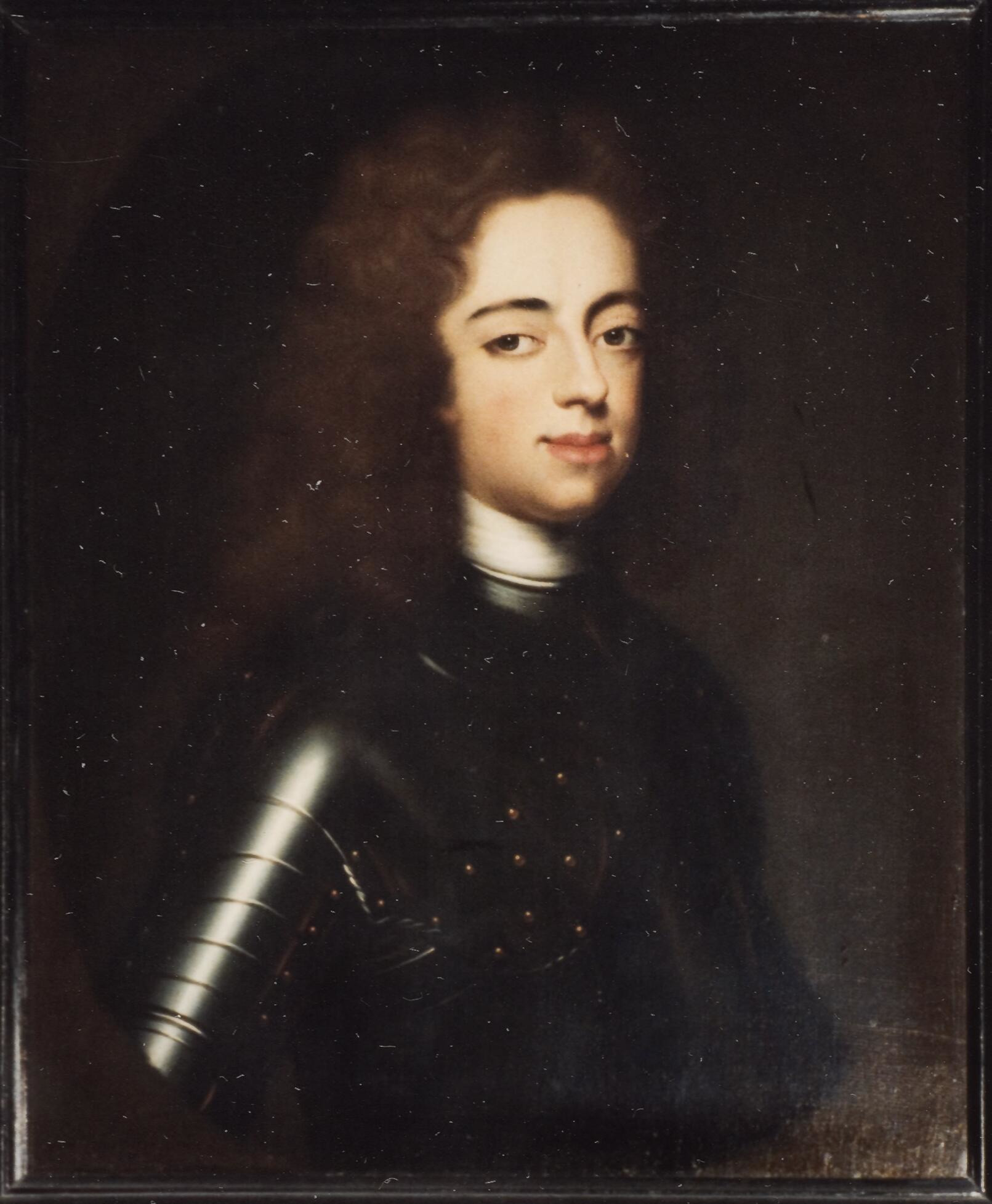 John William Friso, Prince of Orange.